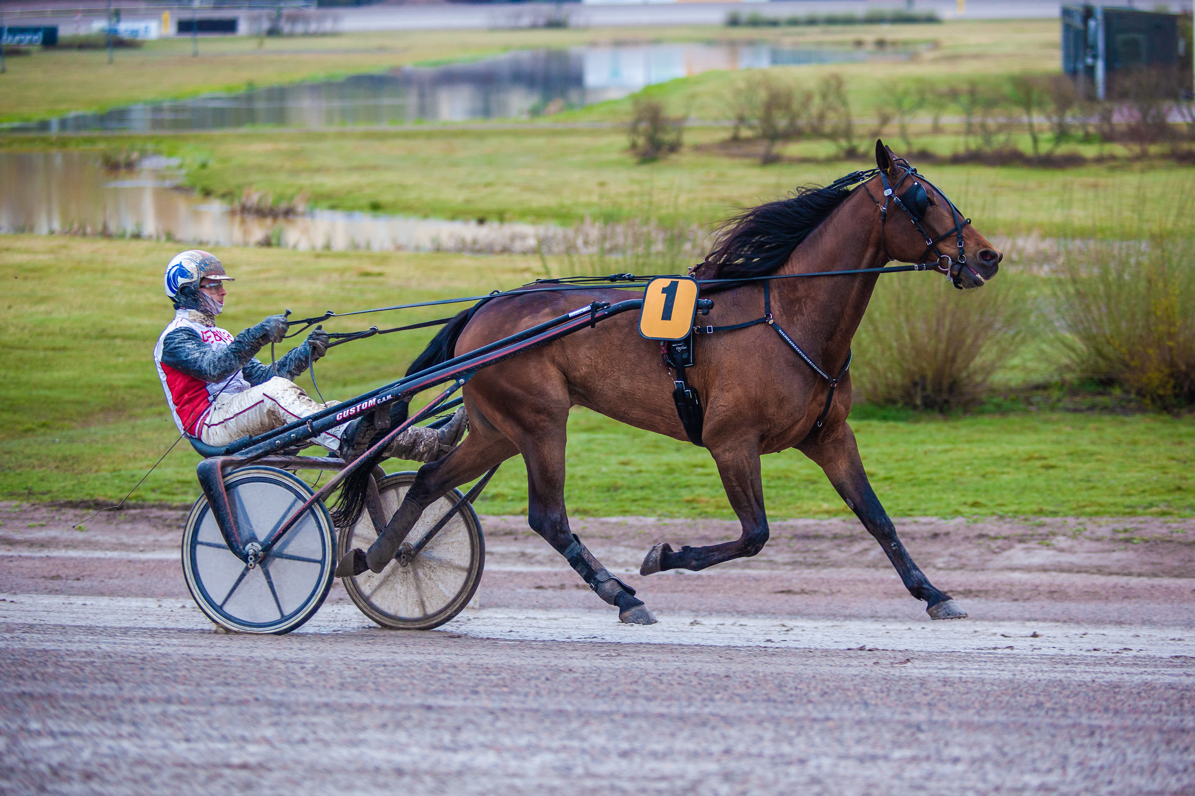 Next Direction and Iikka Nurmonen at Vermo 4.5.2019